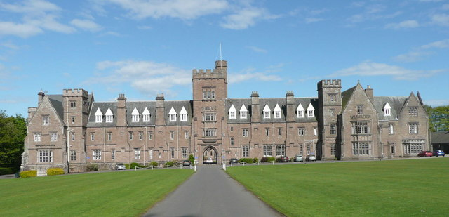 Glenalmond College As the website says: 'We are extremely privileged in our location, enjoying 300 acres of Perthshire's finest countryside within easy reach of Scotland's main cities and airports.'